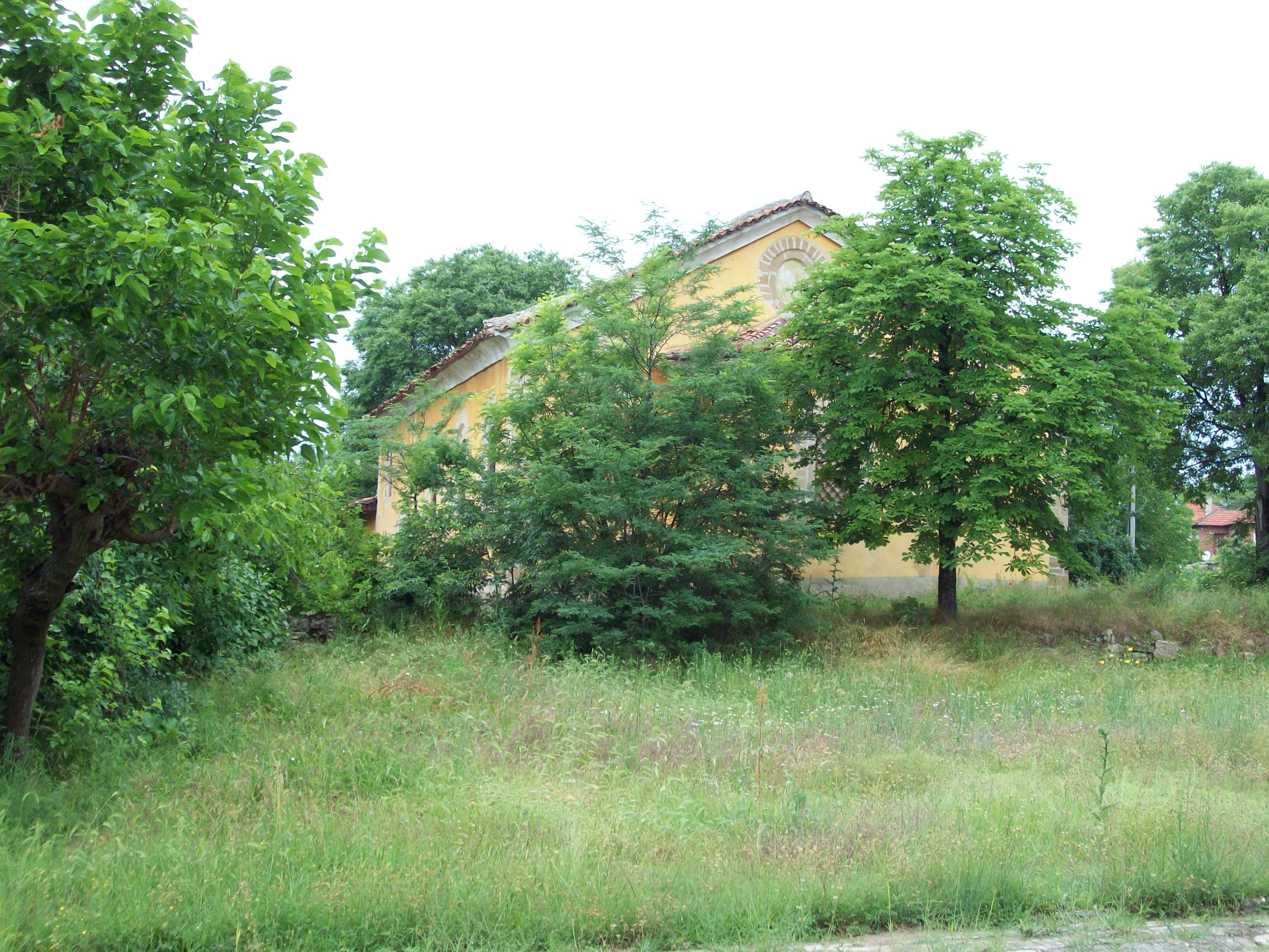 The church in the village Pravoslav